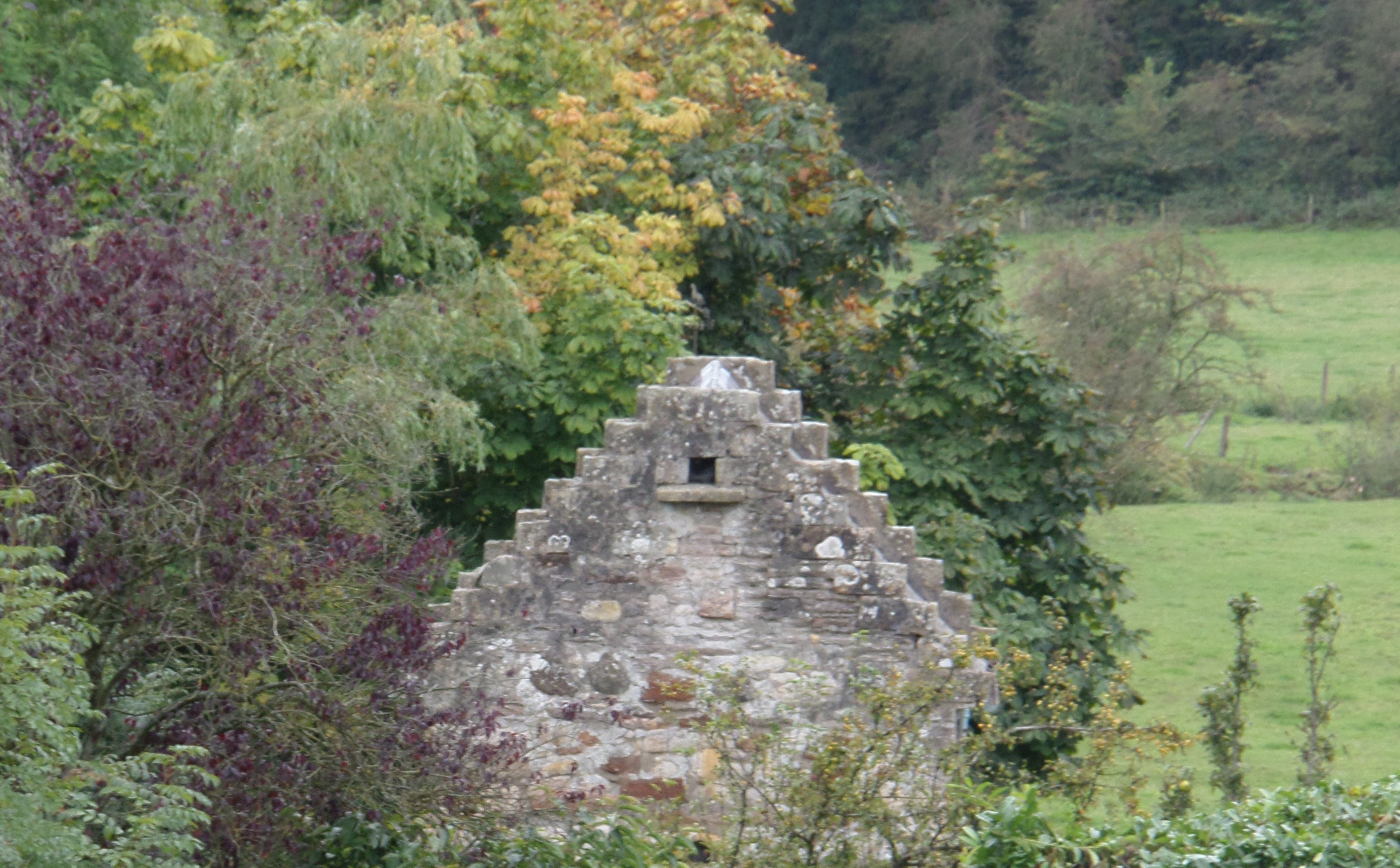 The 1636 Kirkfauld dovecote at Kilmaurs, East Ayrshire, Scotland.